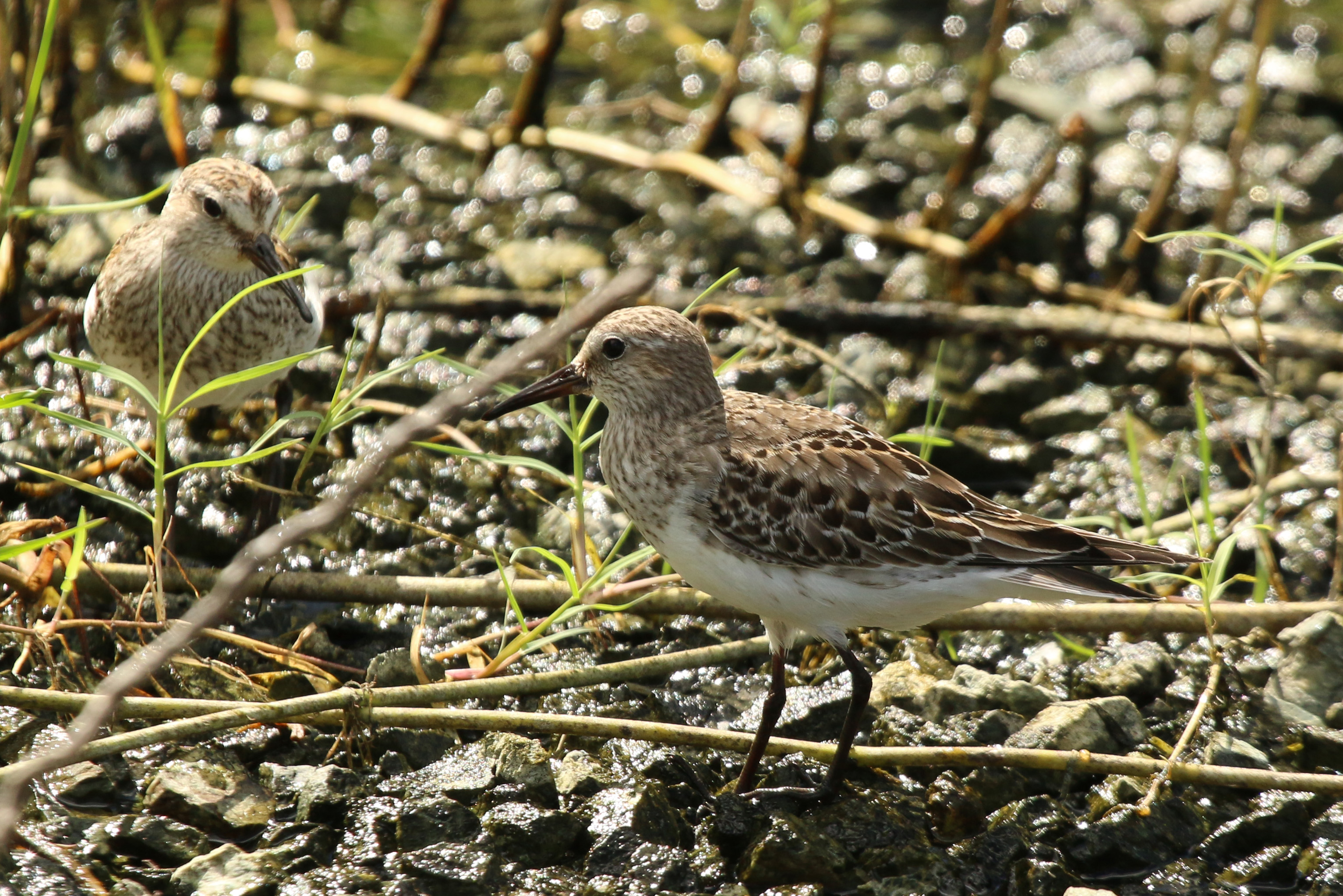 White-rumped sandpiper (Calidris fuscicollis), Tobago